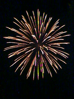 An Example of a Spider shaped firework in Japan